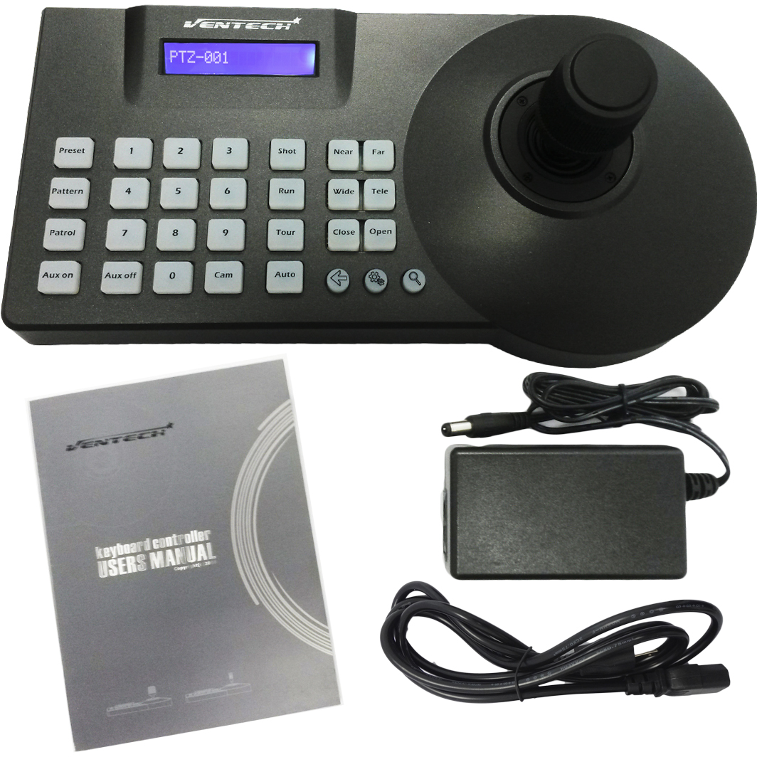 ptz keyboard to control ptz cameras